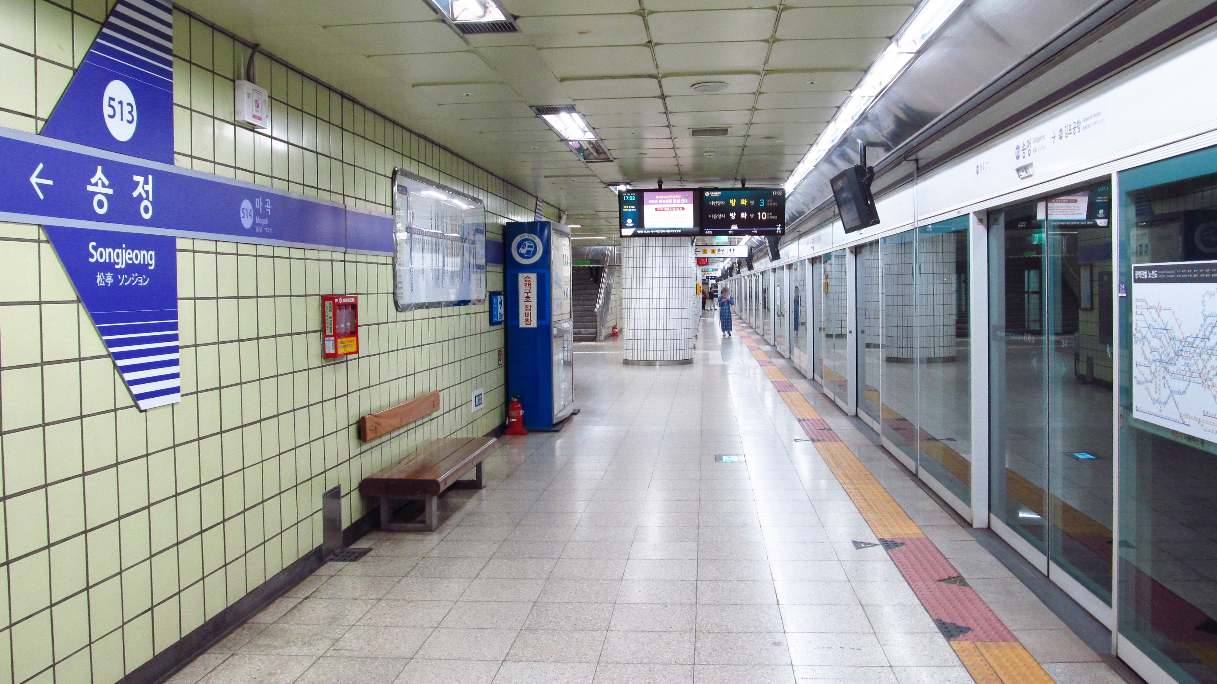 The platform at Songjeong Station on Seoul Subway Line 5 in Gangseo-gu, Seoul, Republic of Korea(South Korea)